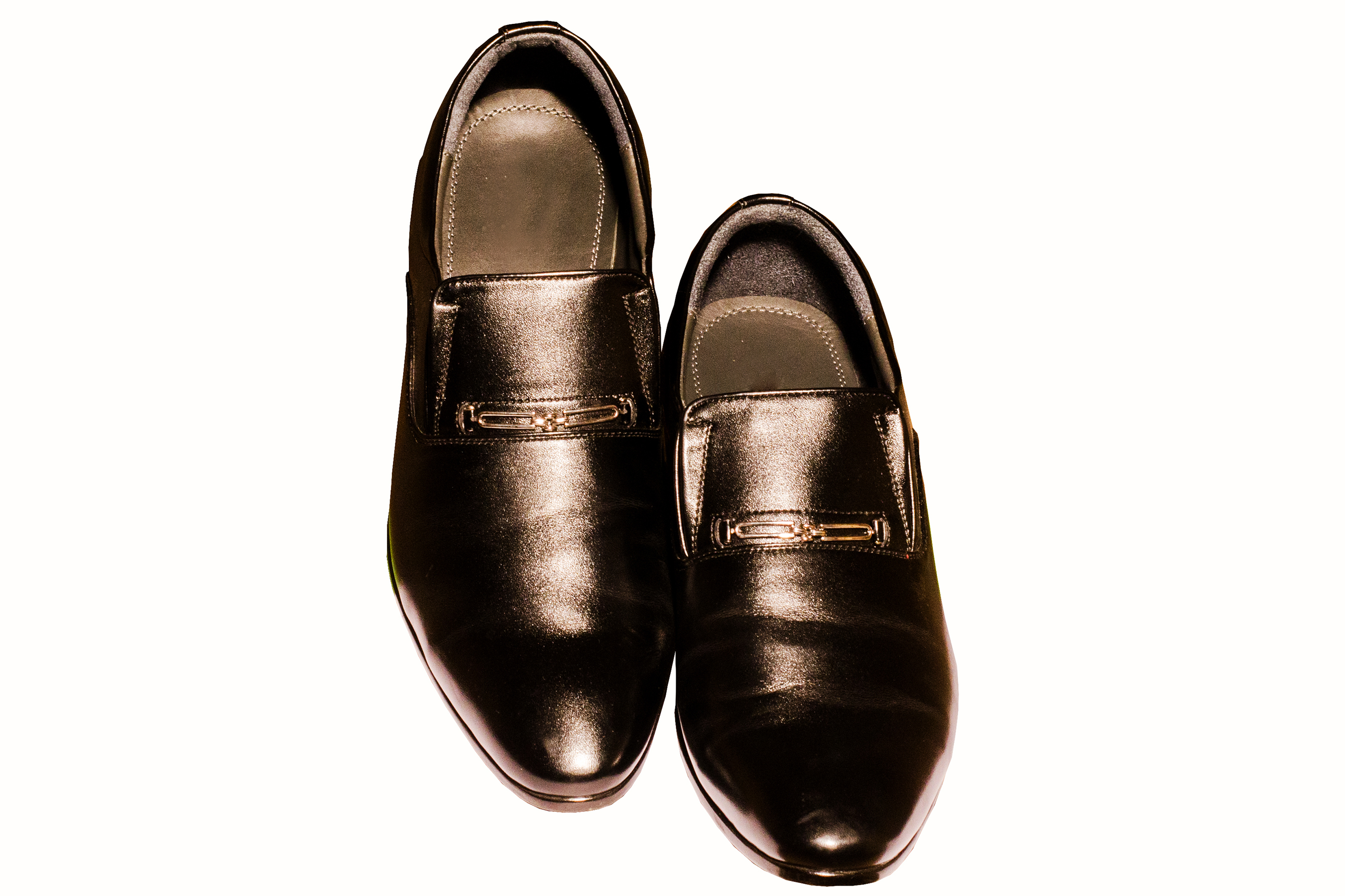 A pair of formal shoes